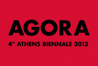 4th Athens Biennale 2013 AGORA logo